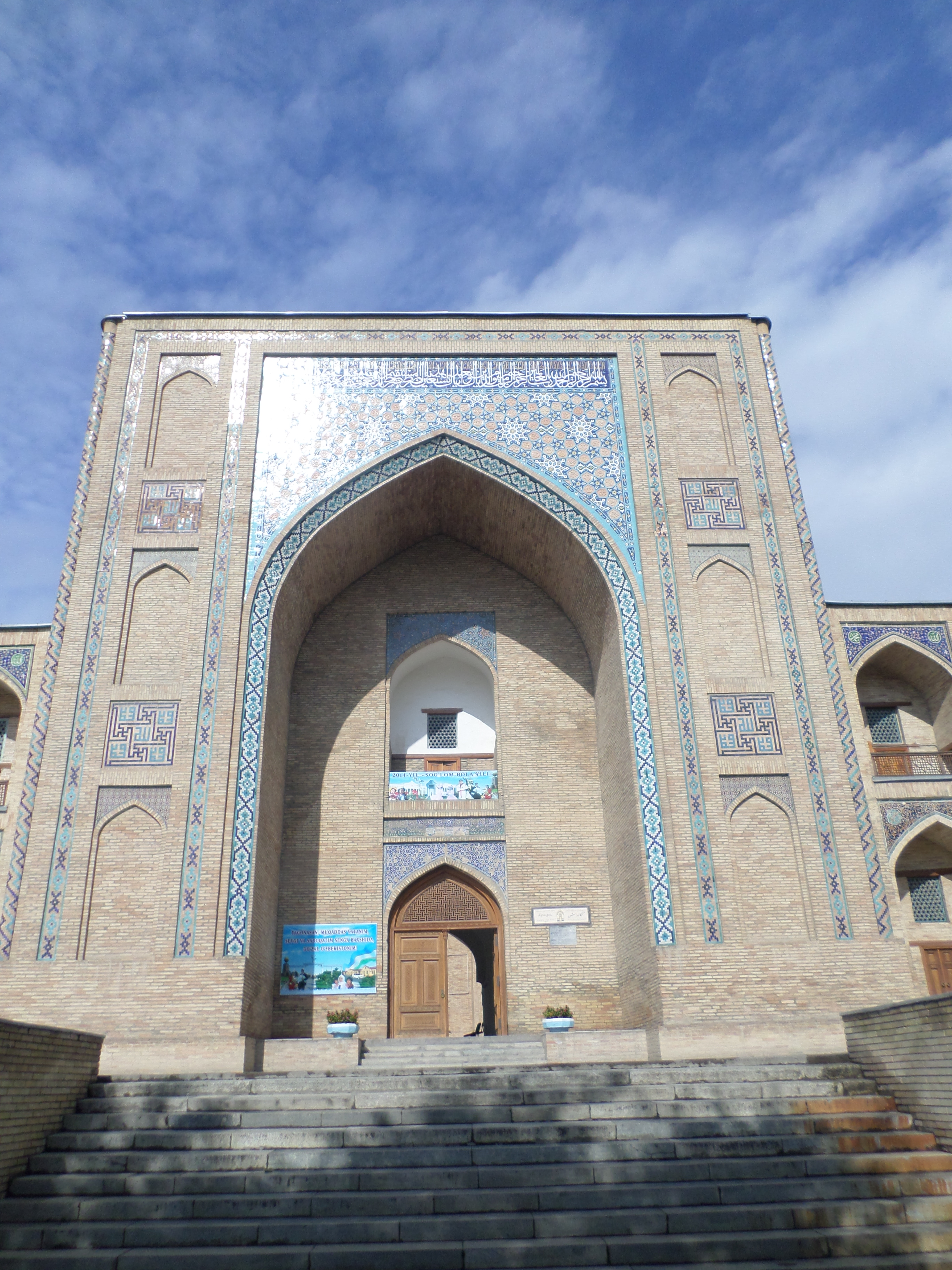 Madrasah Kukaldash (Tashkent)